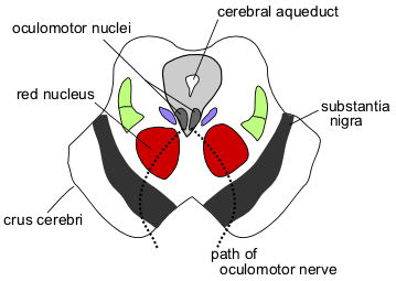 This is a section in the transverse plane through the human midbrain at the level of the superior colliculus, showing the rough path of each nervus oculomotorius from its nucleus toward the eye. The front of the head is near the bottom of the picture.